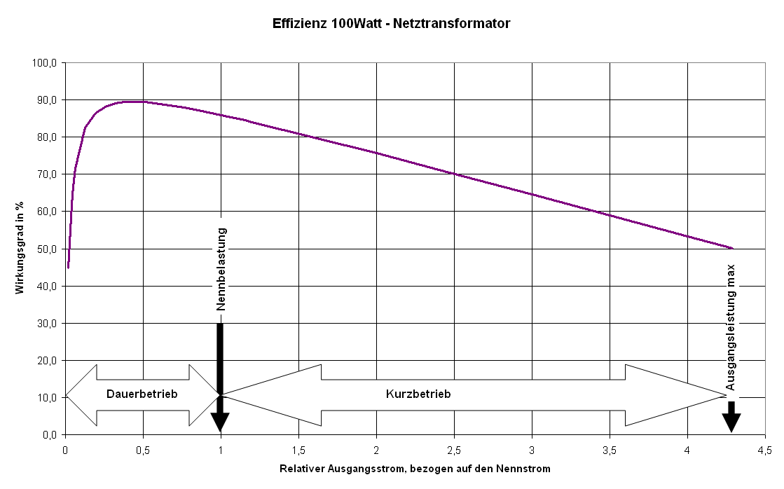 efficiency of a mains transformer